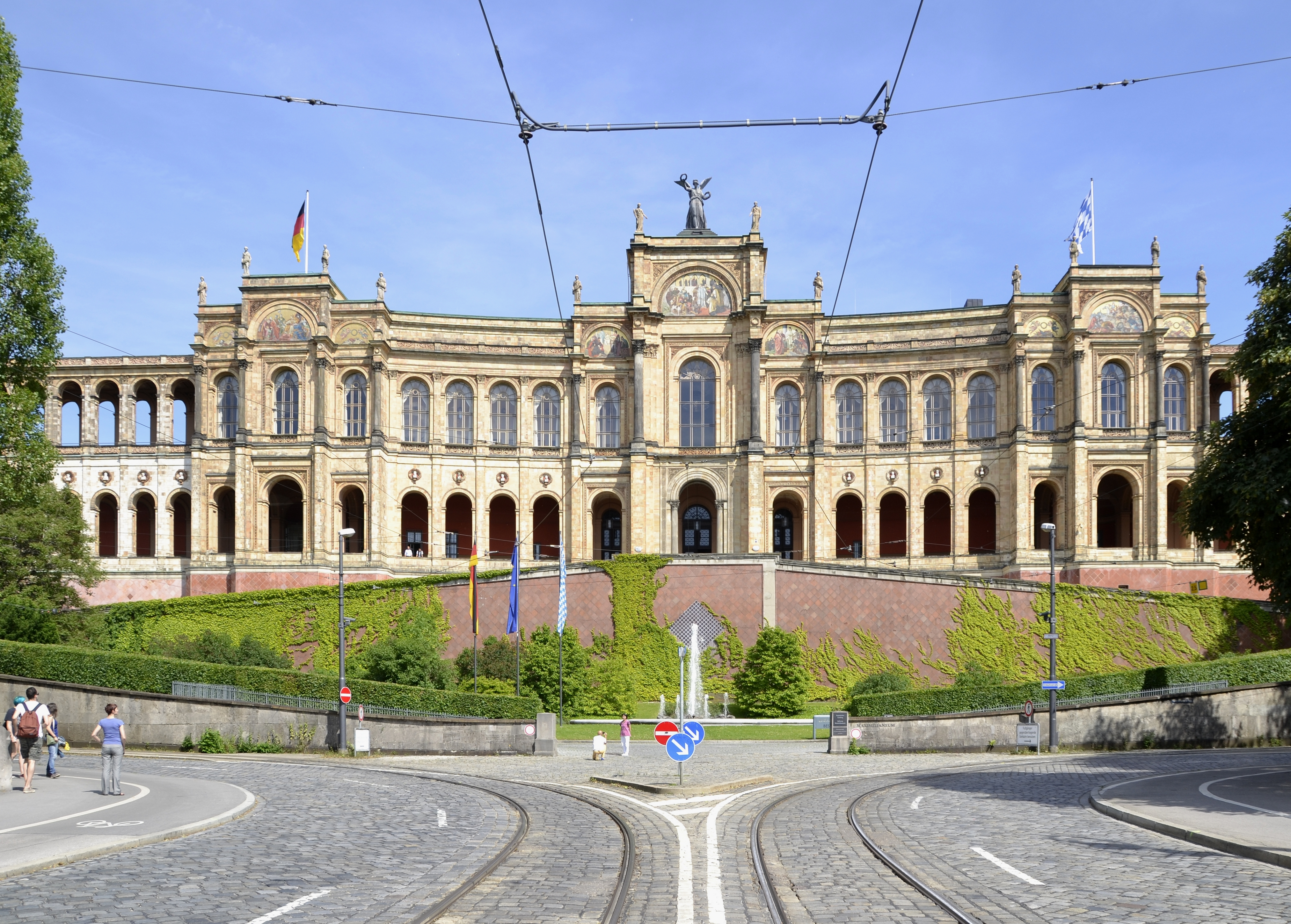 West facade of the Maximilianeum (Bavarian parliament) in Munich.